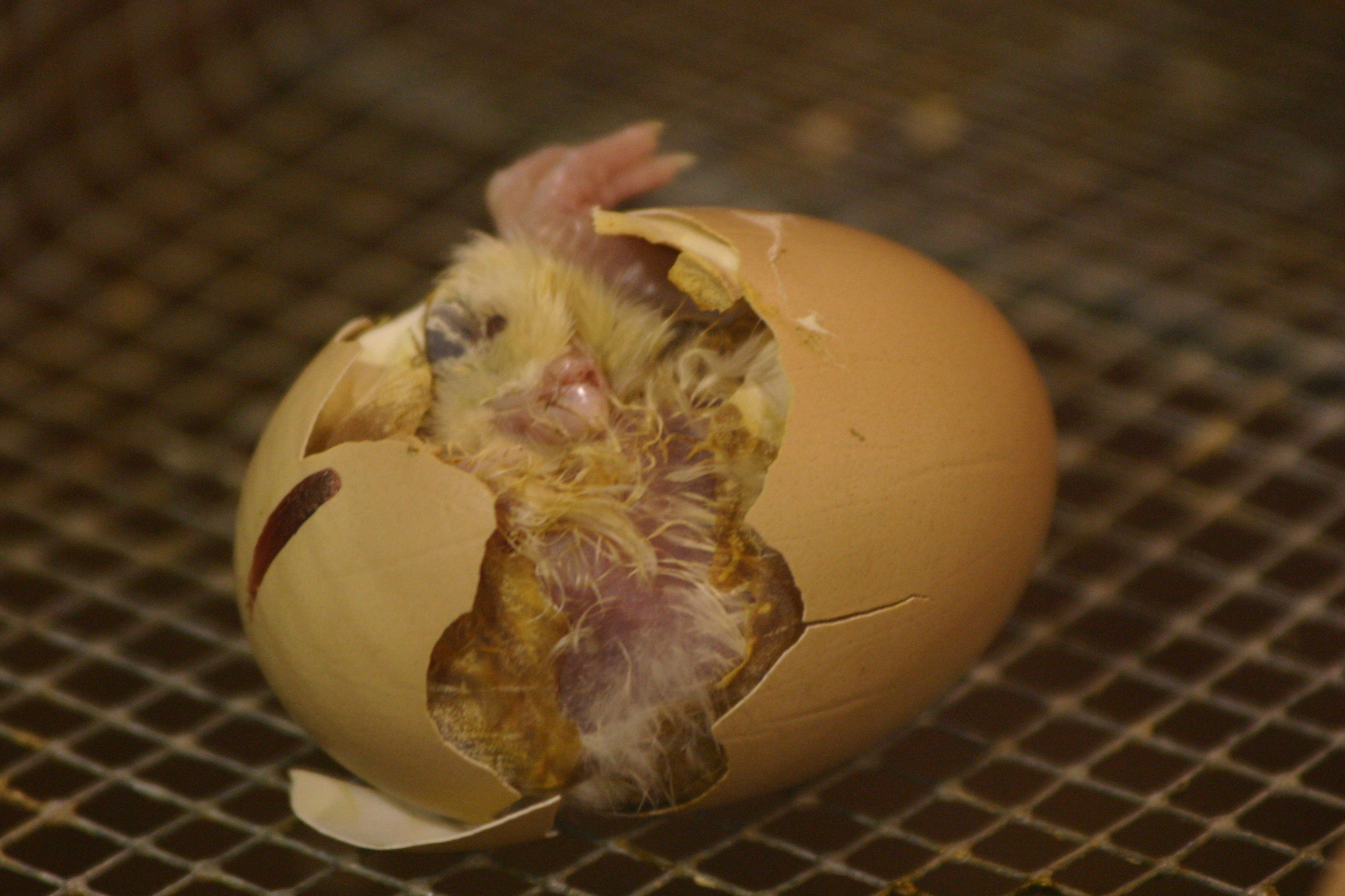 There was an incubator-box-thingy in the agriculture building at The Big E. It didn't take much timing to get this, since chicks hatch very, very slowly. However, it did take some wrangling to get close enough to get this view. I still can't understand how it came out acceptably sharp--it was pretty dim in there, and the shutter speed is something insanely low. 2/IMG_6655